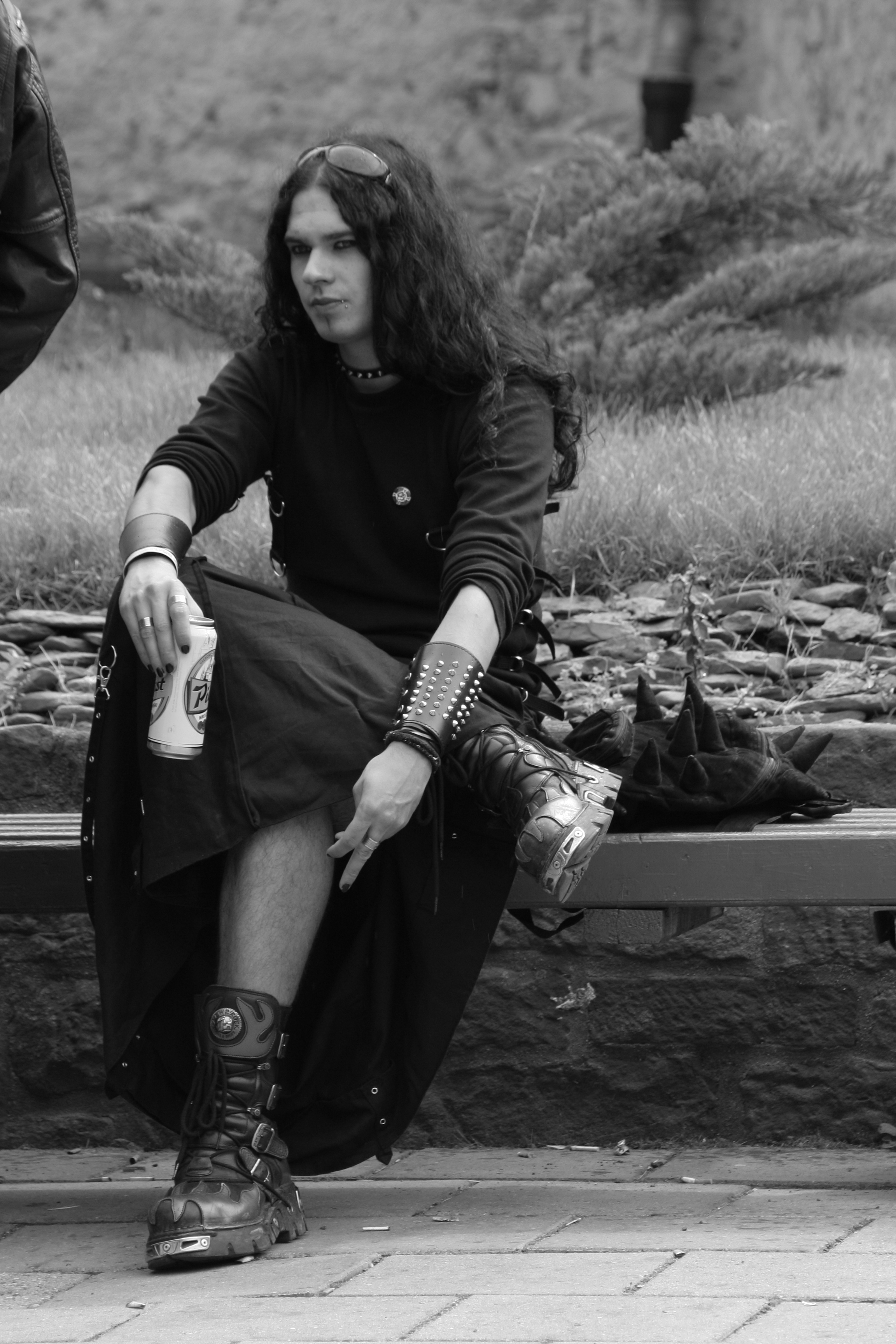 Castle Party 2007